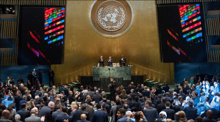 general assembly SDG's Desa